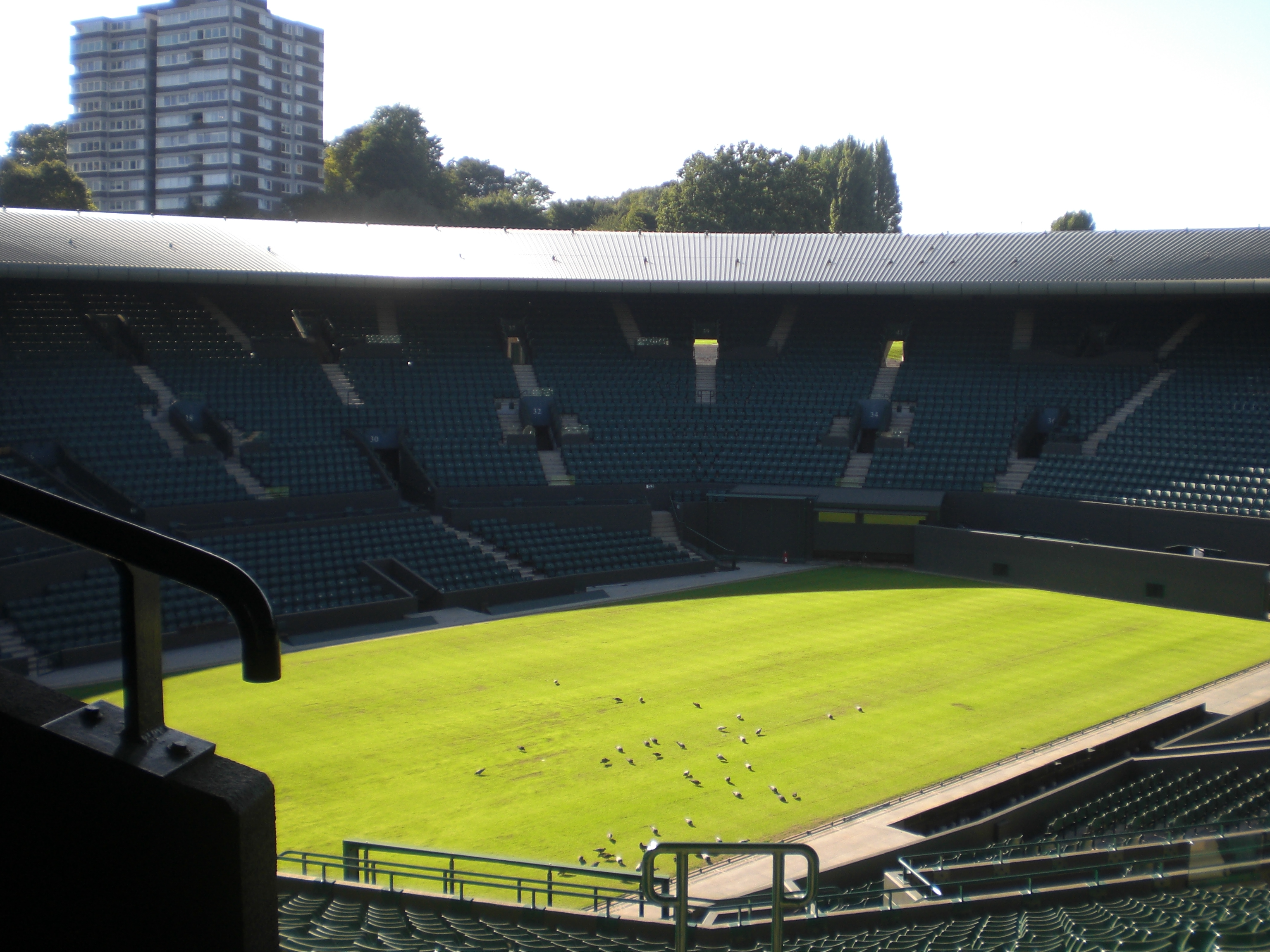 Court No. 1 at All England Lawn Tennis Club